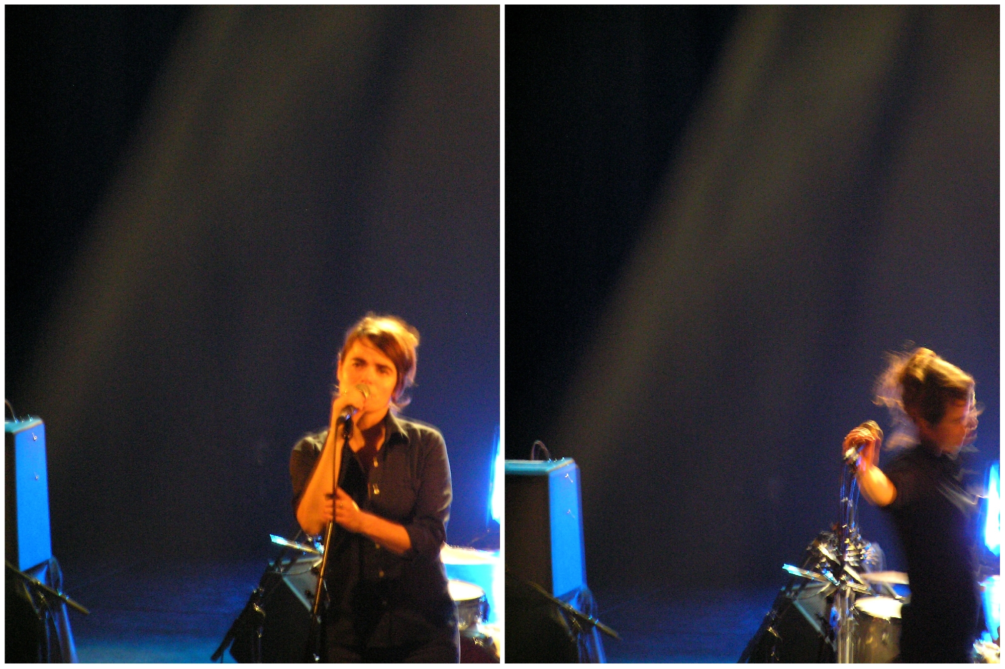 Teenage Kicks Françoiz Breut is the stage name of Françoise Breut, a French illustrator and chanteuse of moody and melancholic pop.